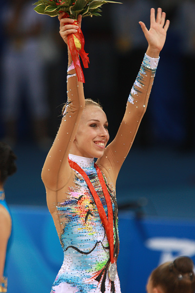 Photograph of Inna Zhukova of Belarus winning silver medal in rhythmic gymnastics at 2008 Olympic Games on August 23, 2008 at Beijing, China. Photo taken by Tom Theobald and released into the public domain.